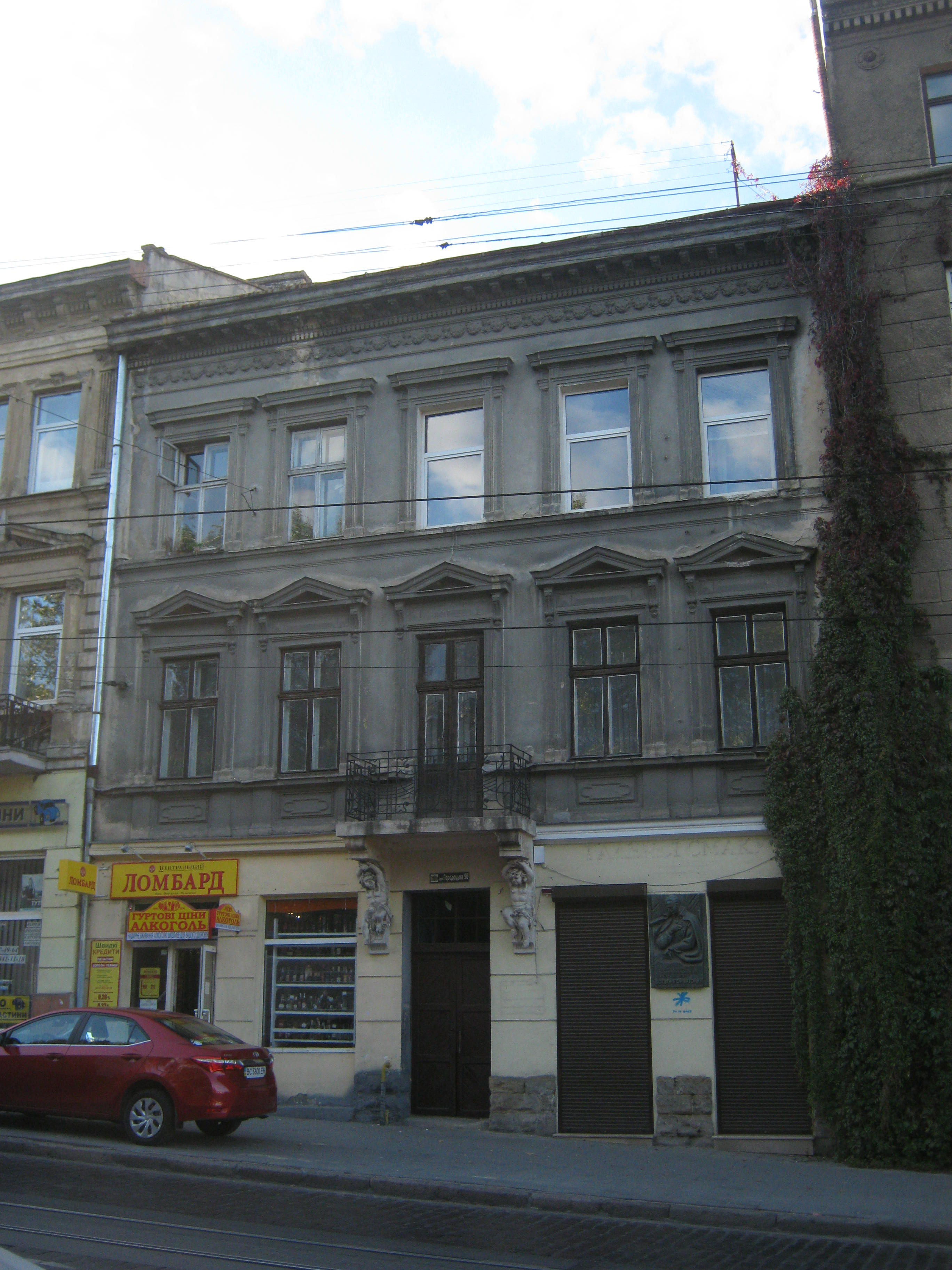 House in Lviv where in 1928-1937 lived Ukrainian poet Bohdan-Ihor Antonych.